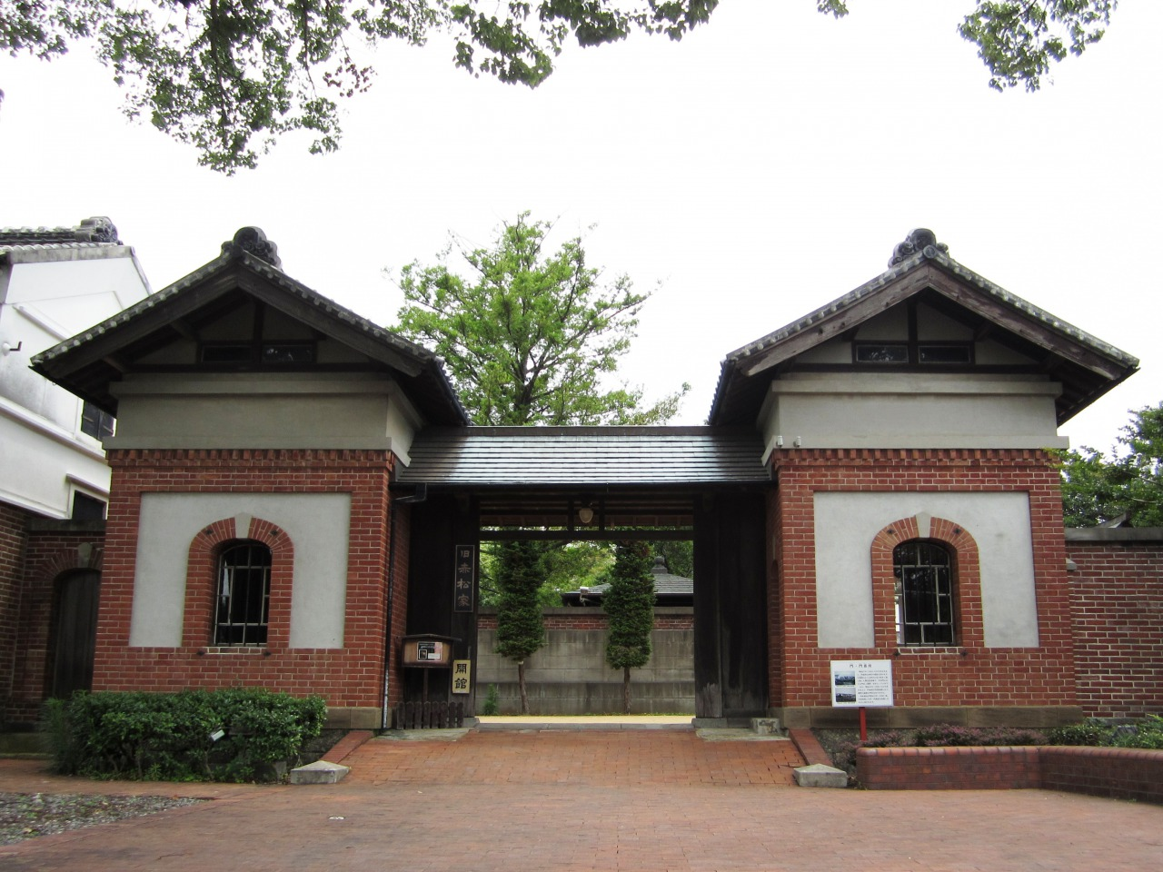 The gate of Akamatsu Noriyoshi's residence